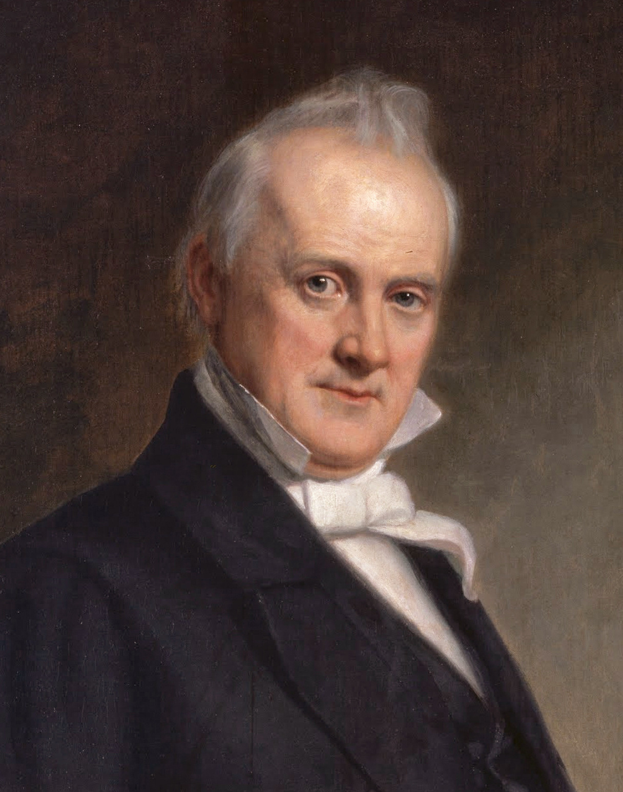 Portrait of James Buchanan, serving (1857-1861) as 15th President of the United States